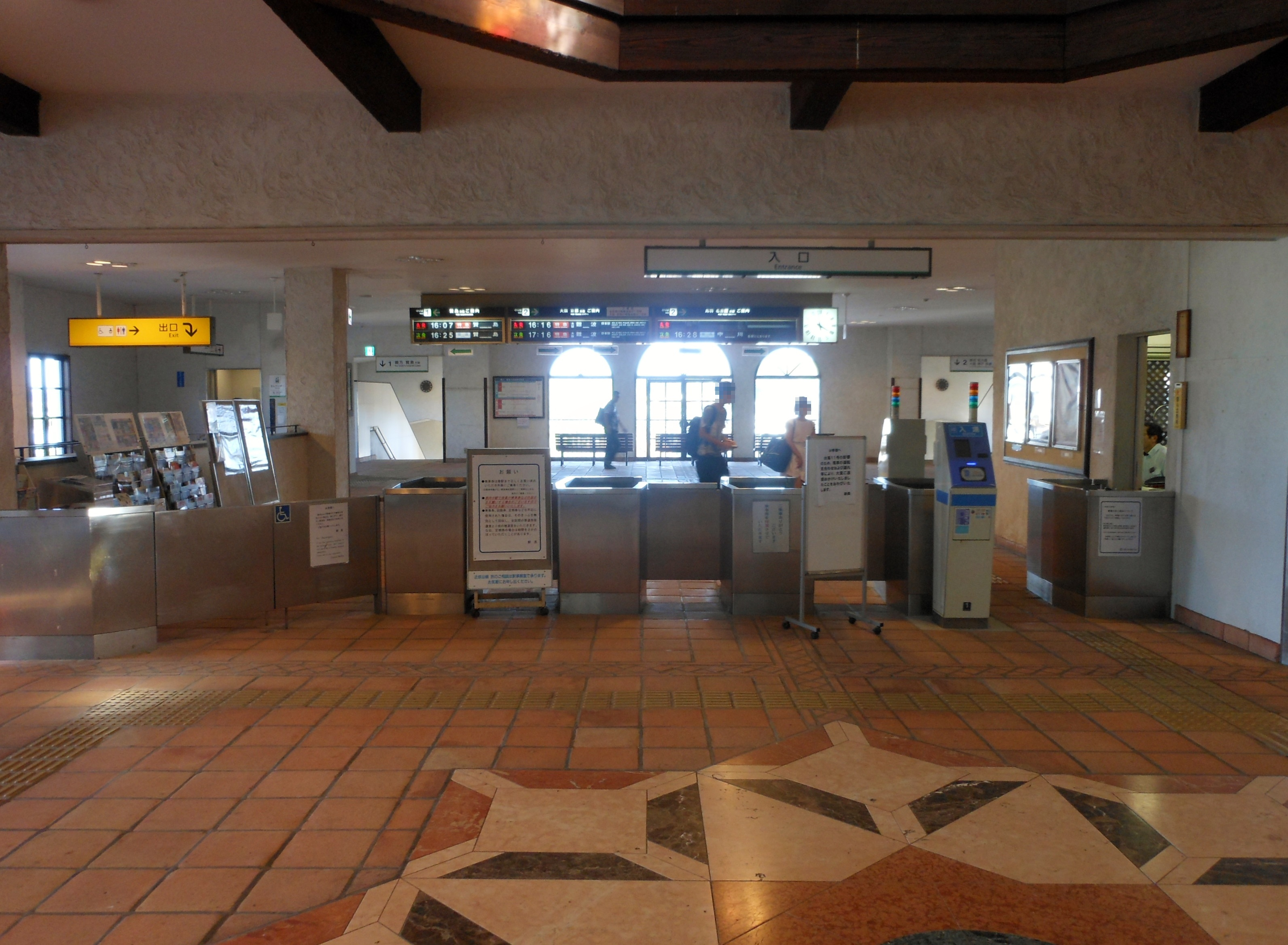 Ticket gate at Shima-Isobe Station